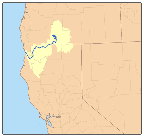 Map of the Klamath River watershed in California and Oregon — Western United States. I, Pfly, made it, based on USGS GIS data.